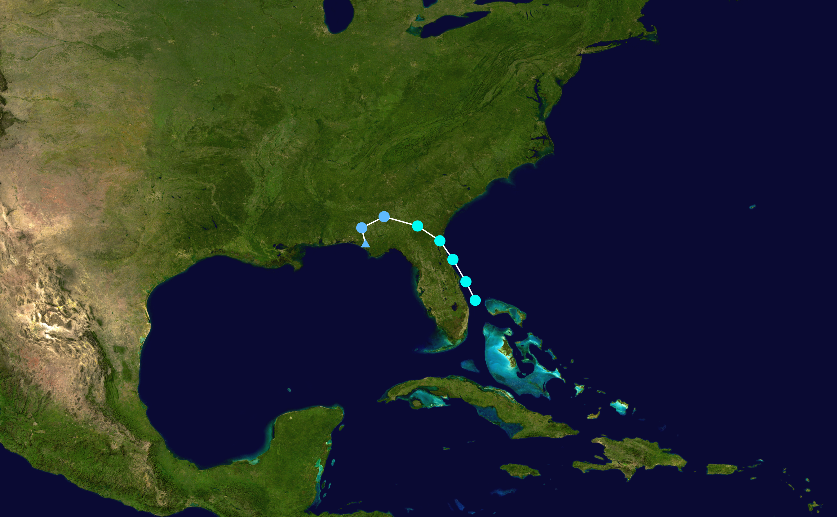 Track map of Tropical Storm Tammy of the 2005 Atlantic hurricane season. The points show the location of the storm at 6-hour intervals. The colour represents the storm's maximum sustained wind speeds as classified in the Saffir–Simpson scale (see below), and the shape of the data points represent the nature of the storm, according to the legend below. Saffir–Simpson scale Tropical depression≤38 mph≤62 km/h Category 3111–129 mph178–208 km/h Tropical storm39–73 mph63–118 km/h Category 4130–156 mph209–251 km/h Category 174–95 mph119–153 km/h Category 5≥157 mph≥252 km/h Category 296–110 mph154–177 km/h Unknown Storm type Tropical cyclone Subtropical cyclone Extratropical cyclone / Remnant low / Tropical disturbance / Monsoon depression